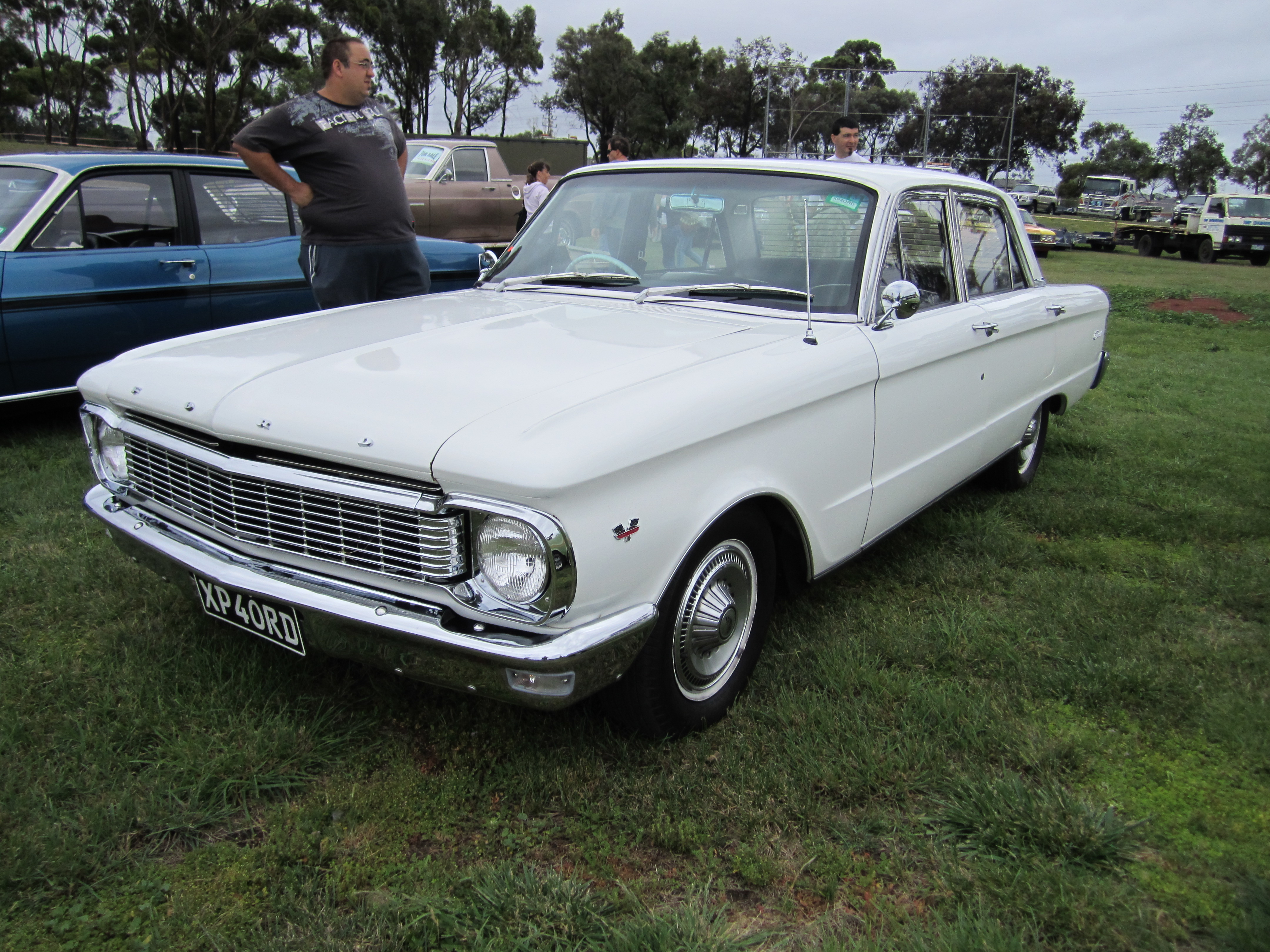 The First Australian Ford Fairmont the XP. Built from December 1965- Sept 1966. Engines; 144, 170 Pursuit & 200 Super Pursuit. Sedan and Wagon.